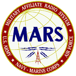 Military Affiliate Radio System Logo.